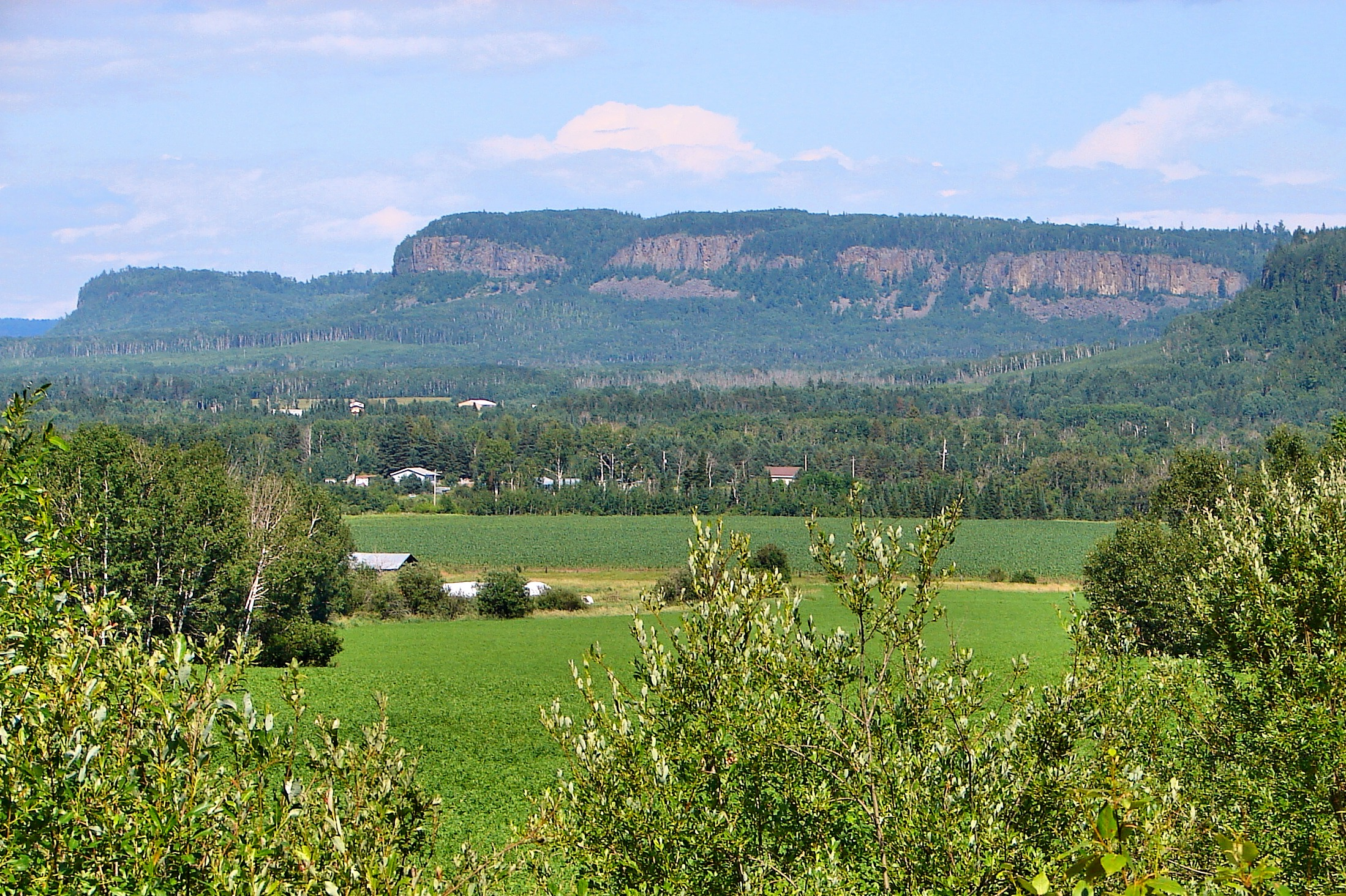 Neebing Township, Thunder Bay District, Ontario, Canada